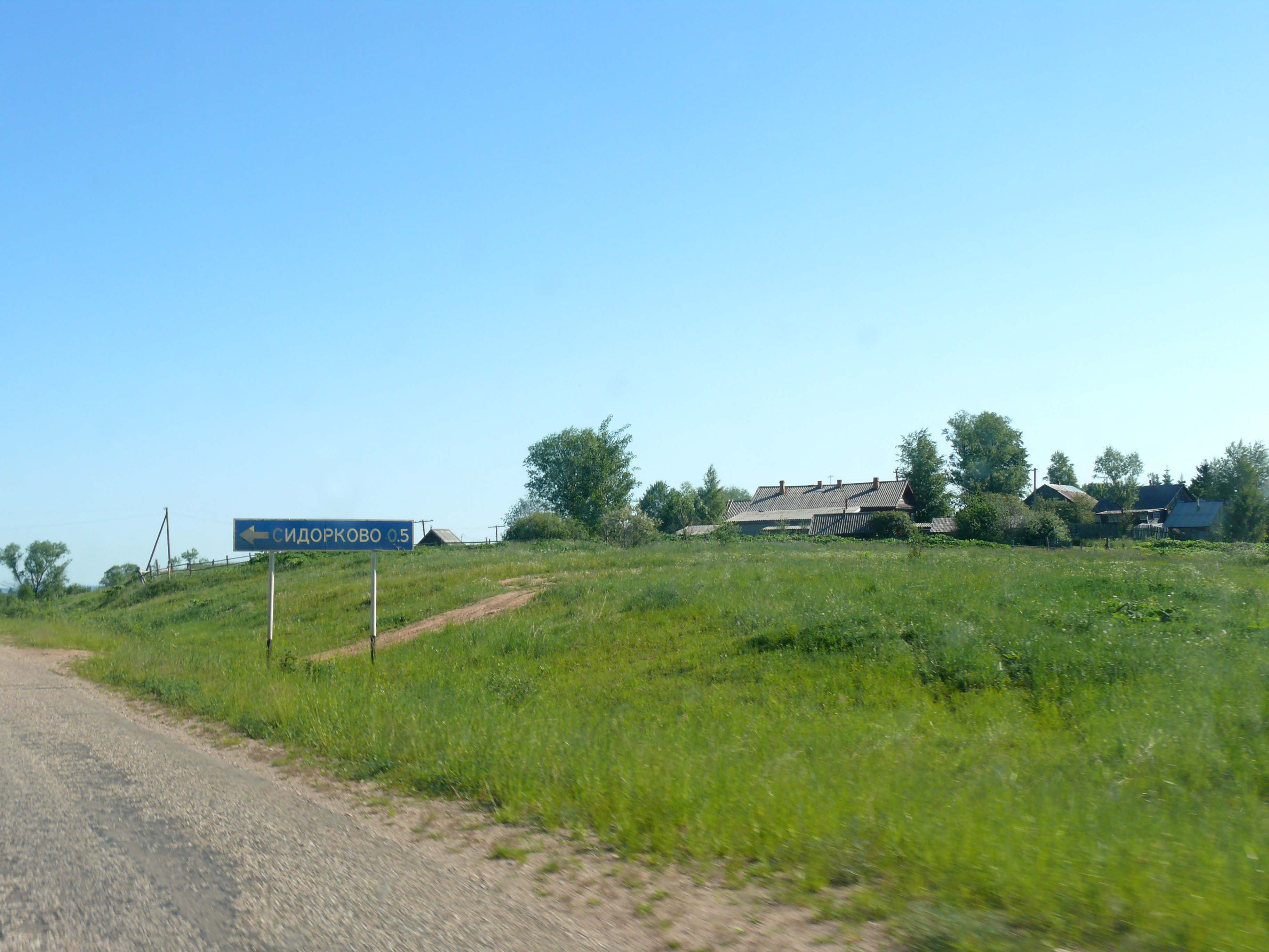 Chernozem village in Borovichsky district, Novgorod oblast, Russia